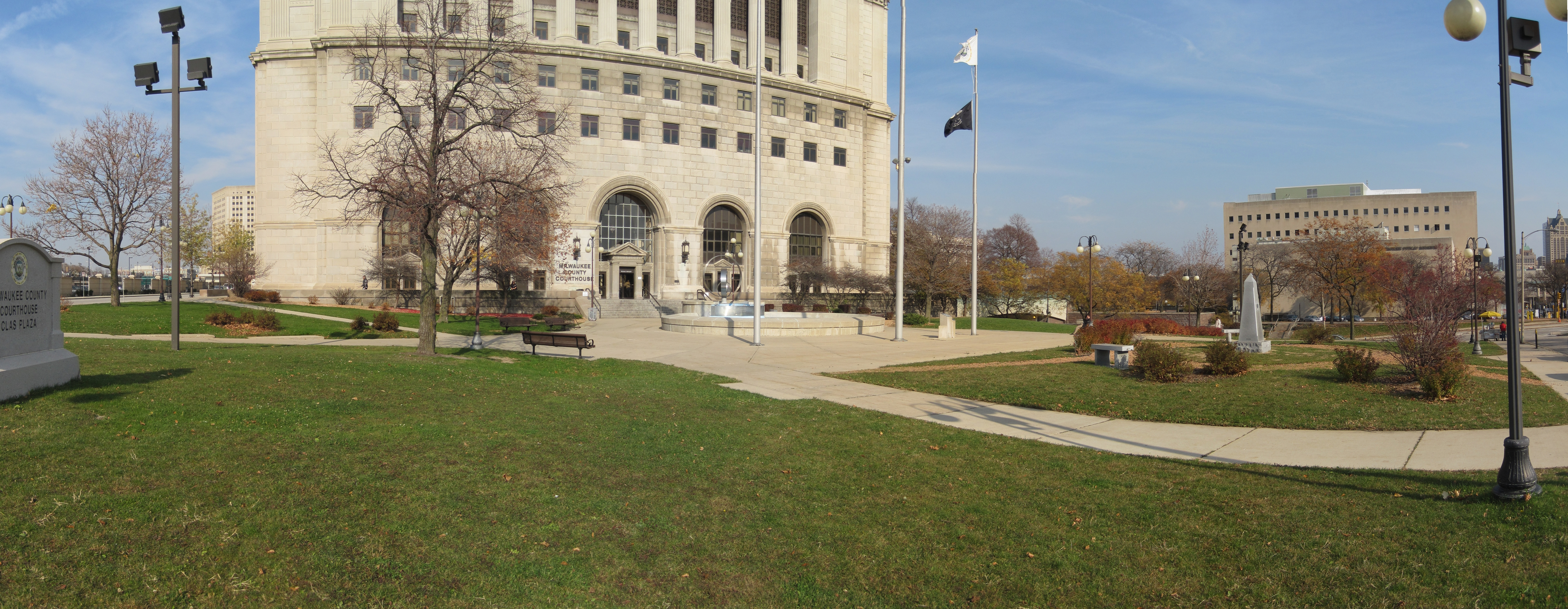 Clas Park in Milwaukee. Located adjacent to the south entrance of the Milwaukee County Courthouse. The Park Commission acquired the land (which had been a parking lot) from the County Board in 1967. A fountain was added during redevelopment of the space in the 1980s. The park was named after Alfred C. Clas, a prominent architect and planner who also served as a County Park Commissioner (1907-1917)